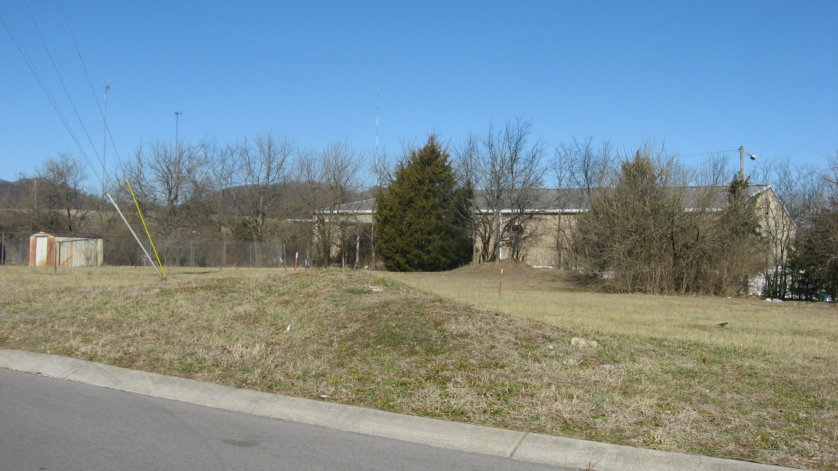 Open land on the northern side of Standing Stone Drive by the Standing Stone Court intersection in Nashville, Tennessee, United States. This land was once part of the Brick Church Mound and Village Site complex, a Mississippian village site that is listed on the National Register of Historic Places, although most of the site was destroyed in the late twentieth century to build a residential neighborhood.